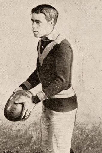 Photograph of Ken MacLeod from the 1910 Weekly Times Victorian Footballer Postcard Series